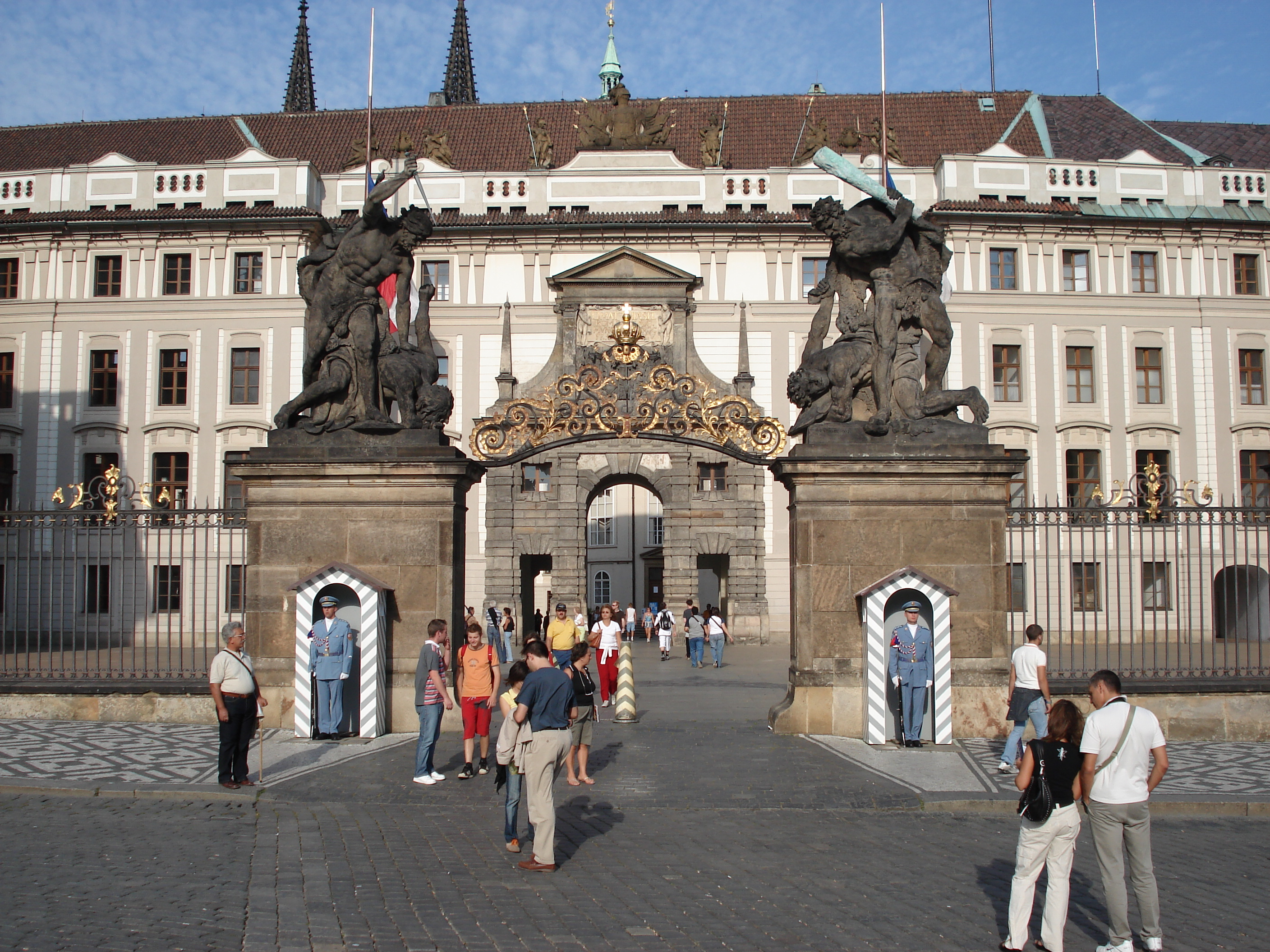 Prague Castle, Main entrance on Hradčany